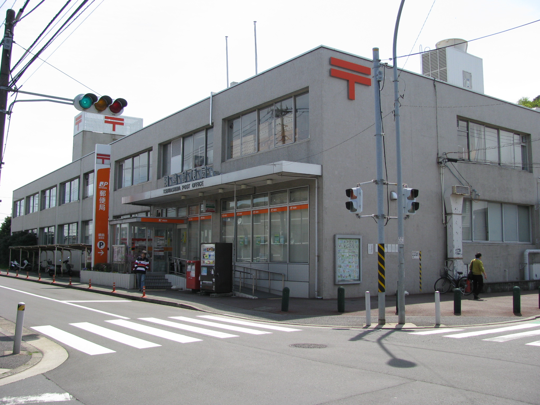 The Tsunashima post office is located in Kohoku-ku, Yokohama, Kanagawa, Japan.